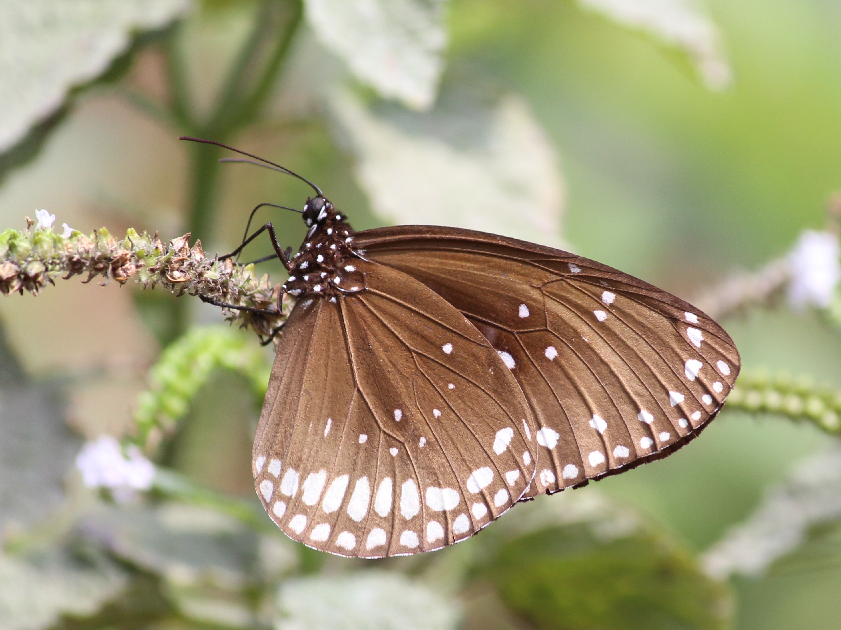 Euploea sylvester in Mysore